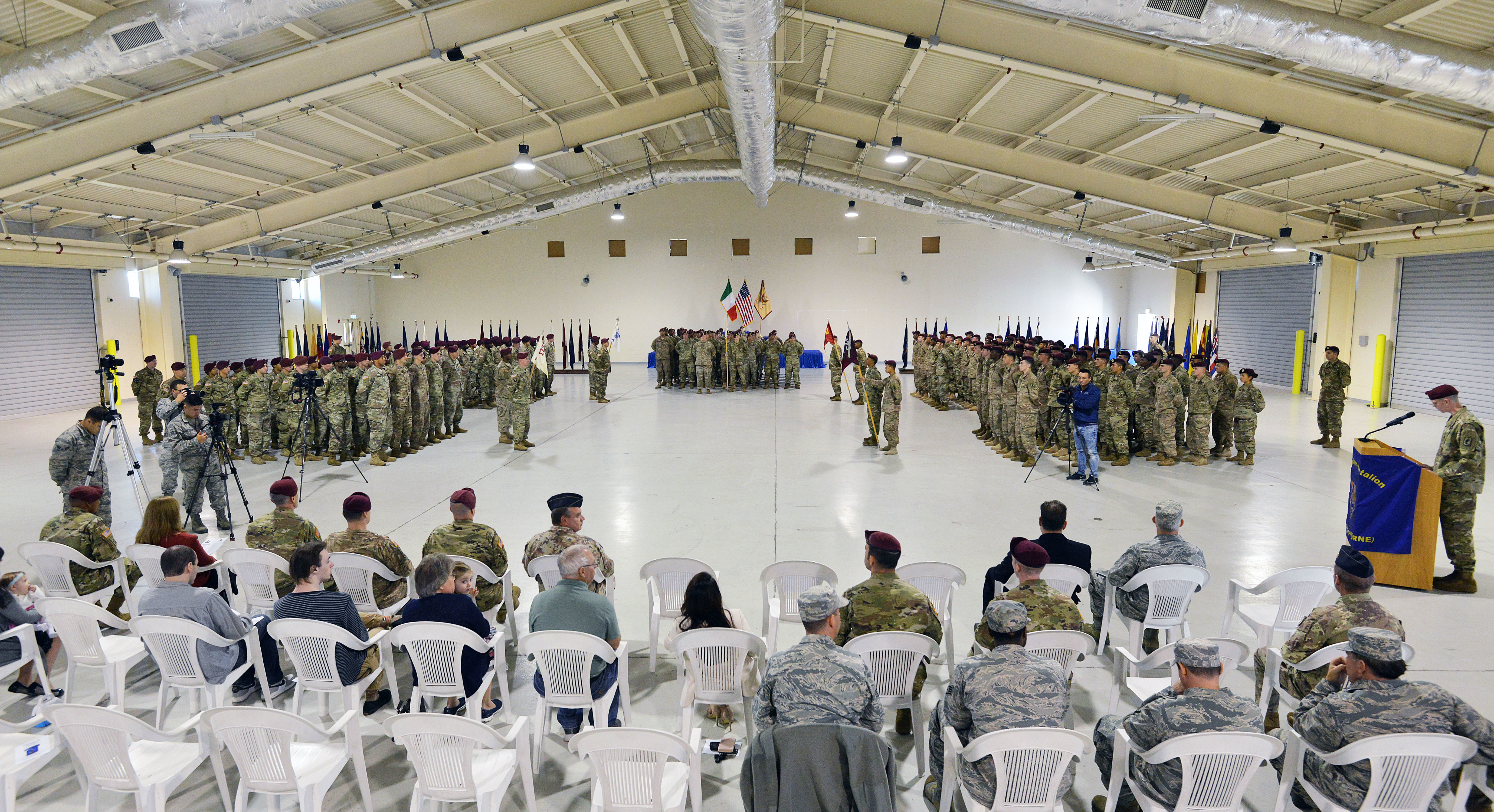 U.S. Army paratroopers from the 173rd Brigade Support Battalion (Airborne), gather during the 601st Quartermaster Company Reactivation ceremony at Aviano Air Base in Aviano, Italy, Oct. 6, 2016.